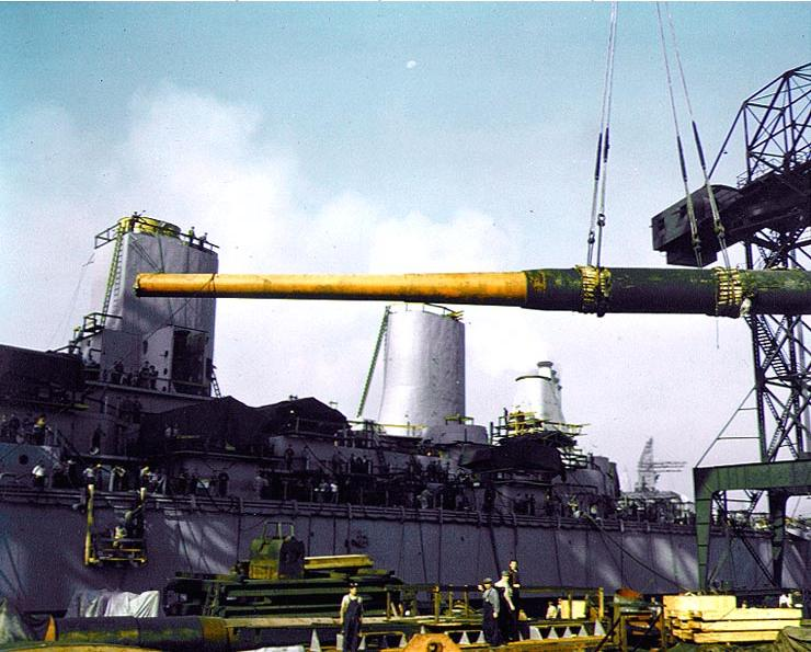 Yard workers, aided by a crane, hoist a 16"/50 Mk VII gun barrel aboard the USS Iowa during her construction in 1942.